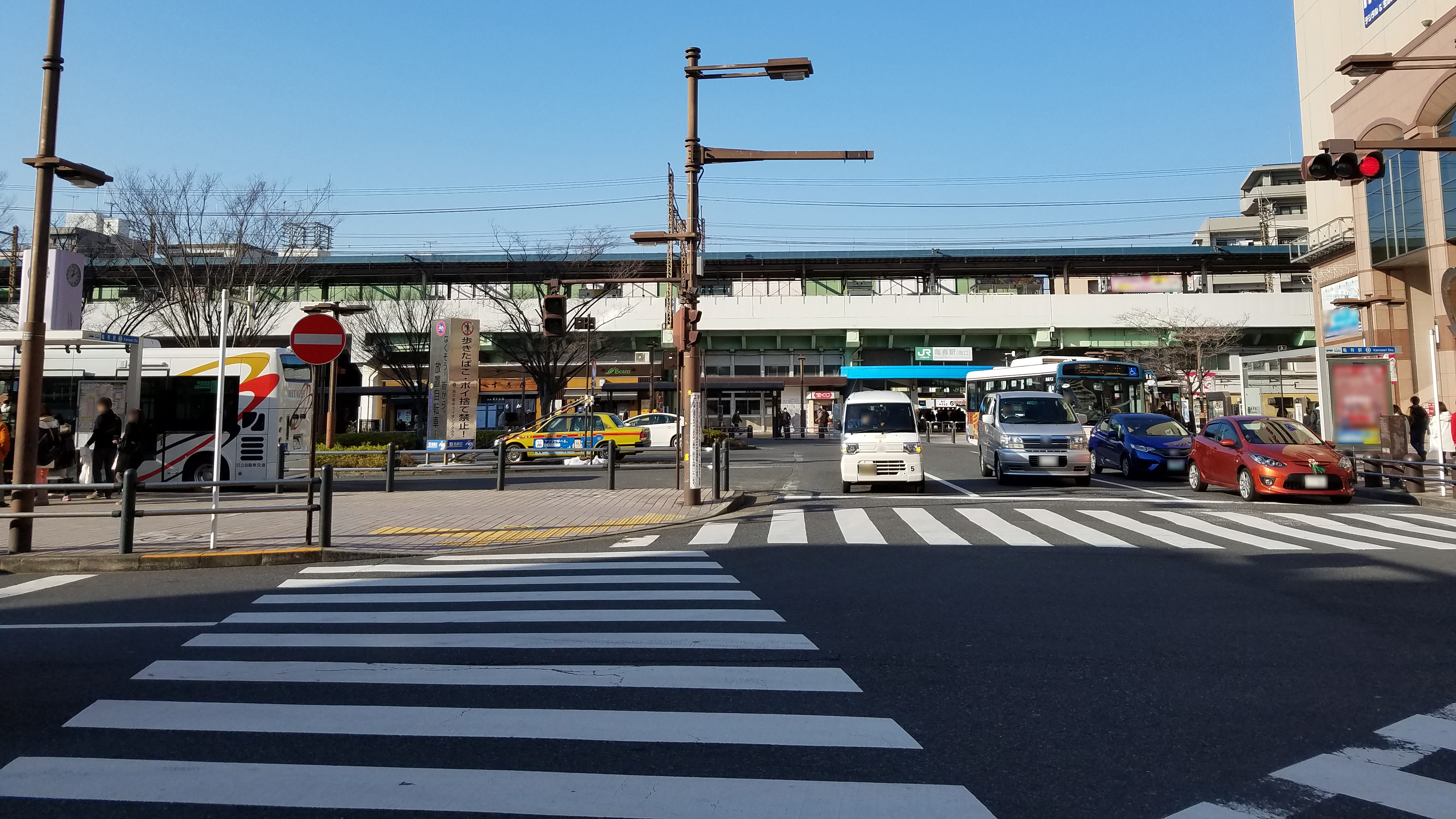 The south entrance to Kameari Station in Tokyo